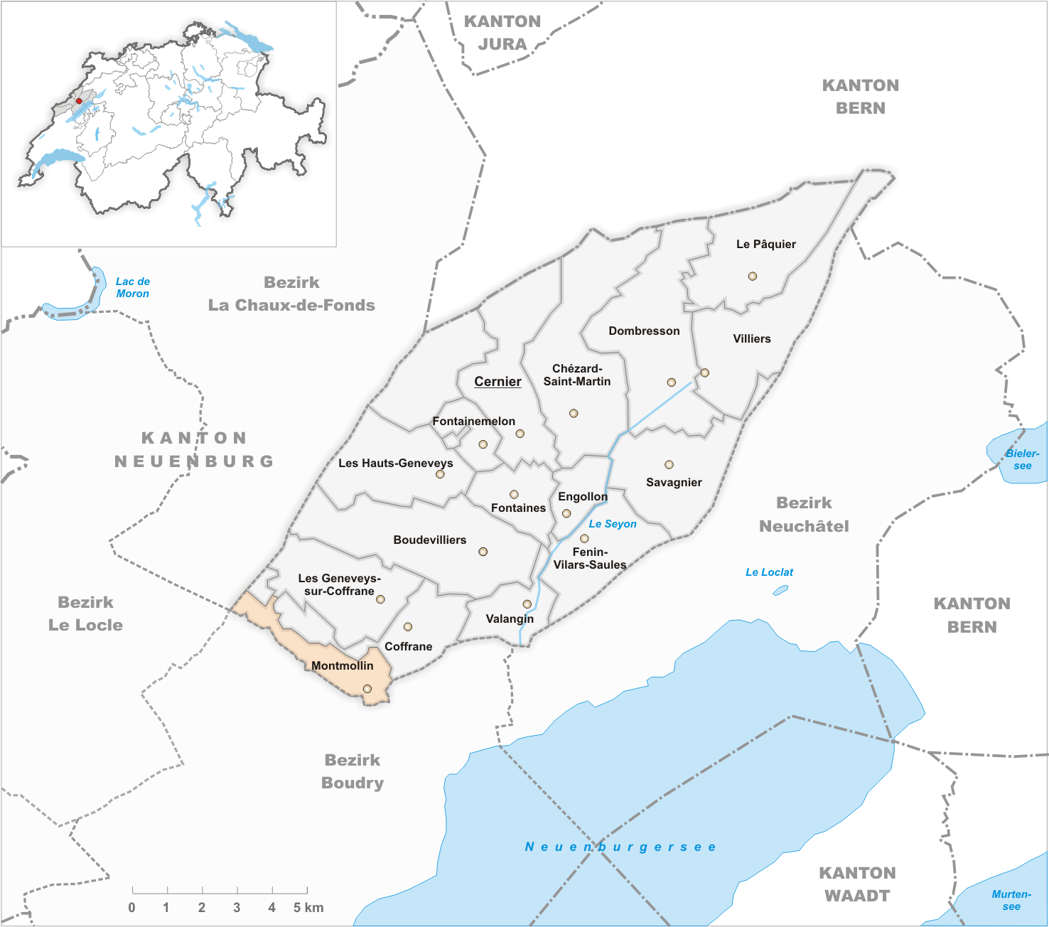 Municipality Montmollin